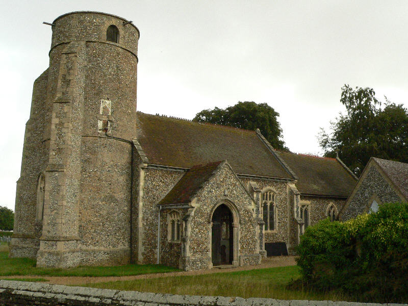 All Saints' parish church, Beyton, Suffolk, seen from the southwest